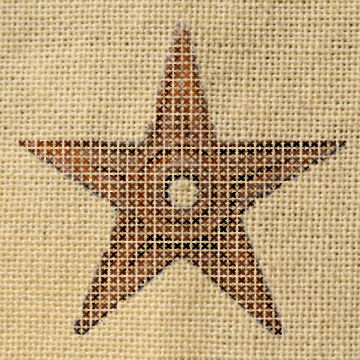 cross-stiched barnstar image